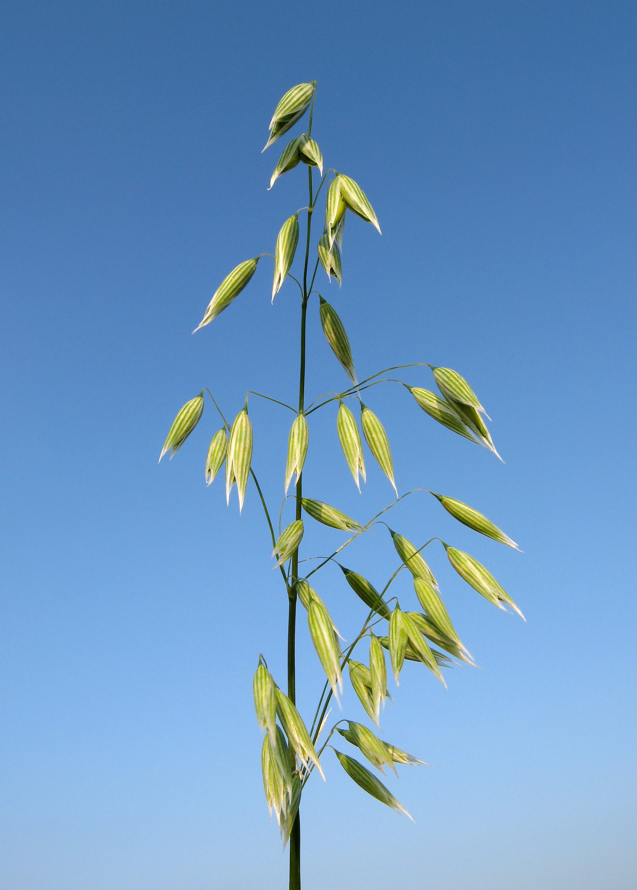 Oat